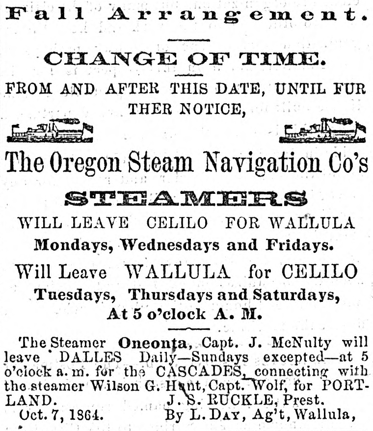 Oregon Steam Navigation Company schedule, published in Walla Walla Statesman, April 21, 1865, page 2, col. 2